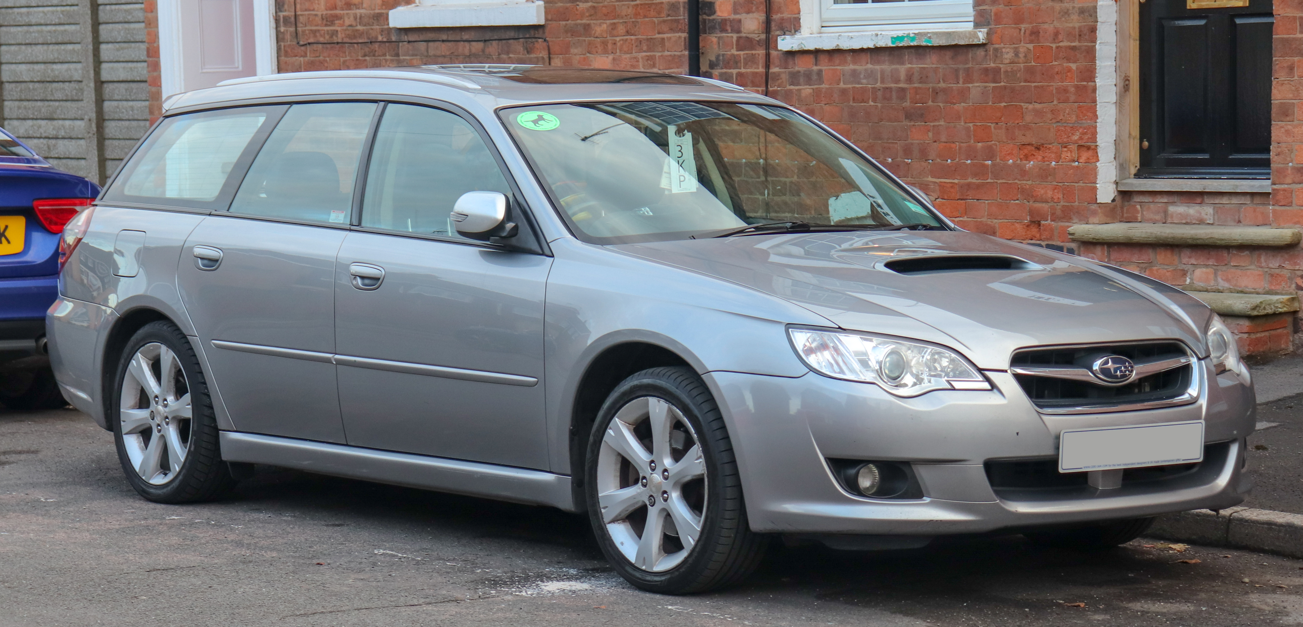 2008 Subaru Legacy Sports Tourer REn 2.0 Front Taken in Warwick